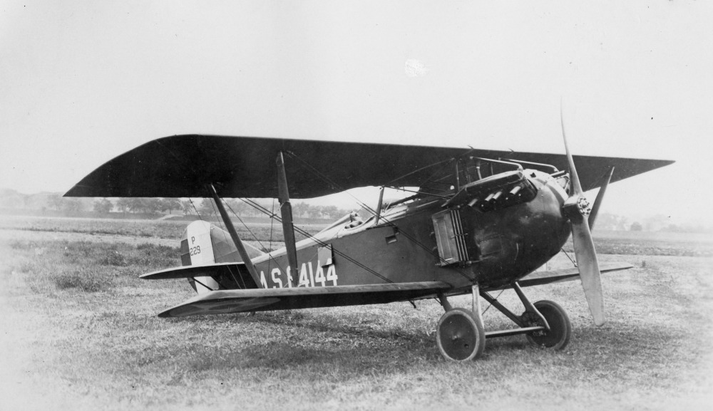 PictionID:41898317 - Title:Ray Wagner Collection Image - Catalog:16_000658 Orenco PW-3 64144 - Filename:16_000658 Orenco PW-3 64144.tif - - - - Ray Wagner was Archivist at the San Diego Air and Space Museum for several years and is an author of several books on aviation --- ---Please Tag these images so that the information can be permanently stored with the digital file.---Repository: San Diego Air and Space Museum